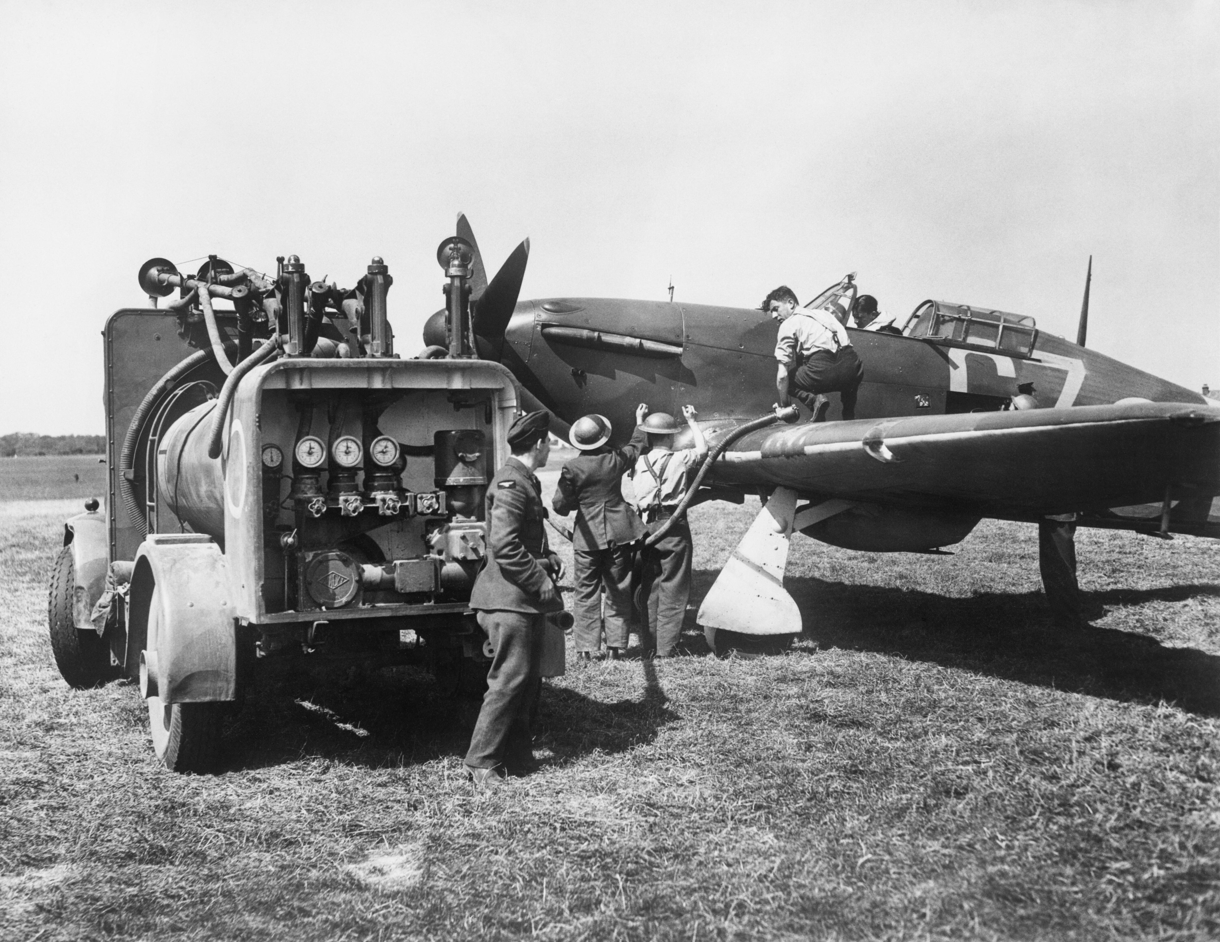 The Battle of Britain Groundcrew refuelling a Hawker Hurricane Mk I of No. 32 Squadron from a refuelling truck whilst the pilot waits in the cockpit, Biggin Hill, August 1940.